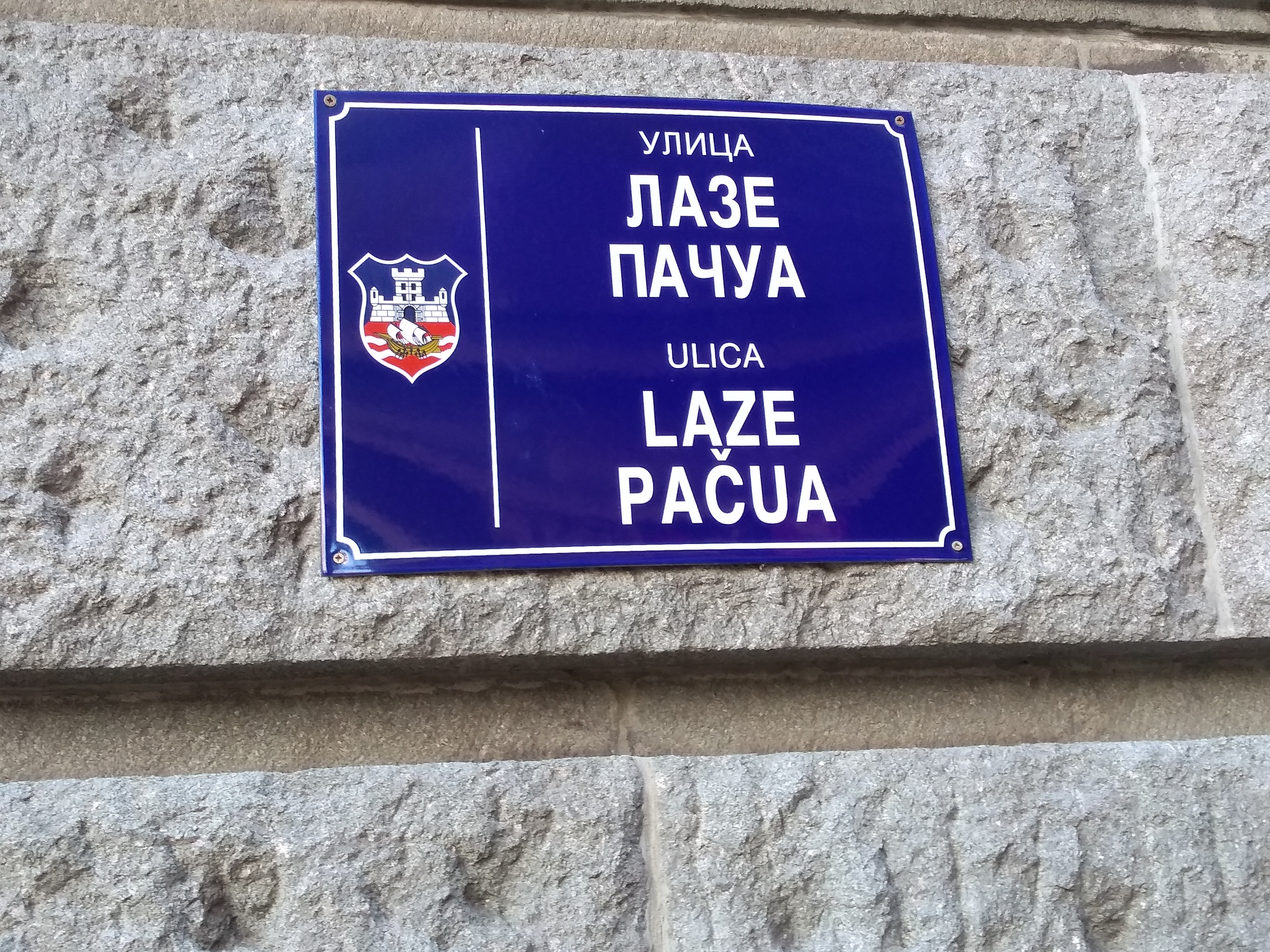 Laze Pacu street in Belgrade Srpski (latinica): Ulica Laze Pačua u centru Beograda, tabla sa imenom ulice.